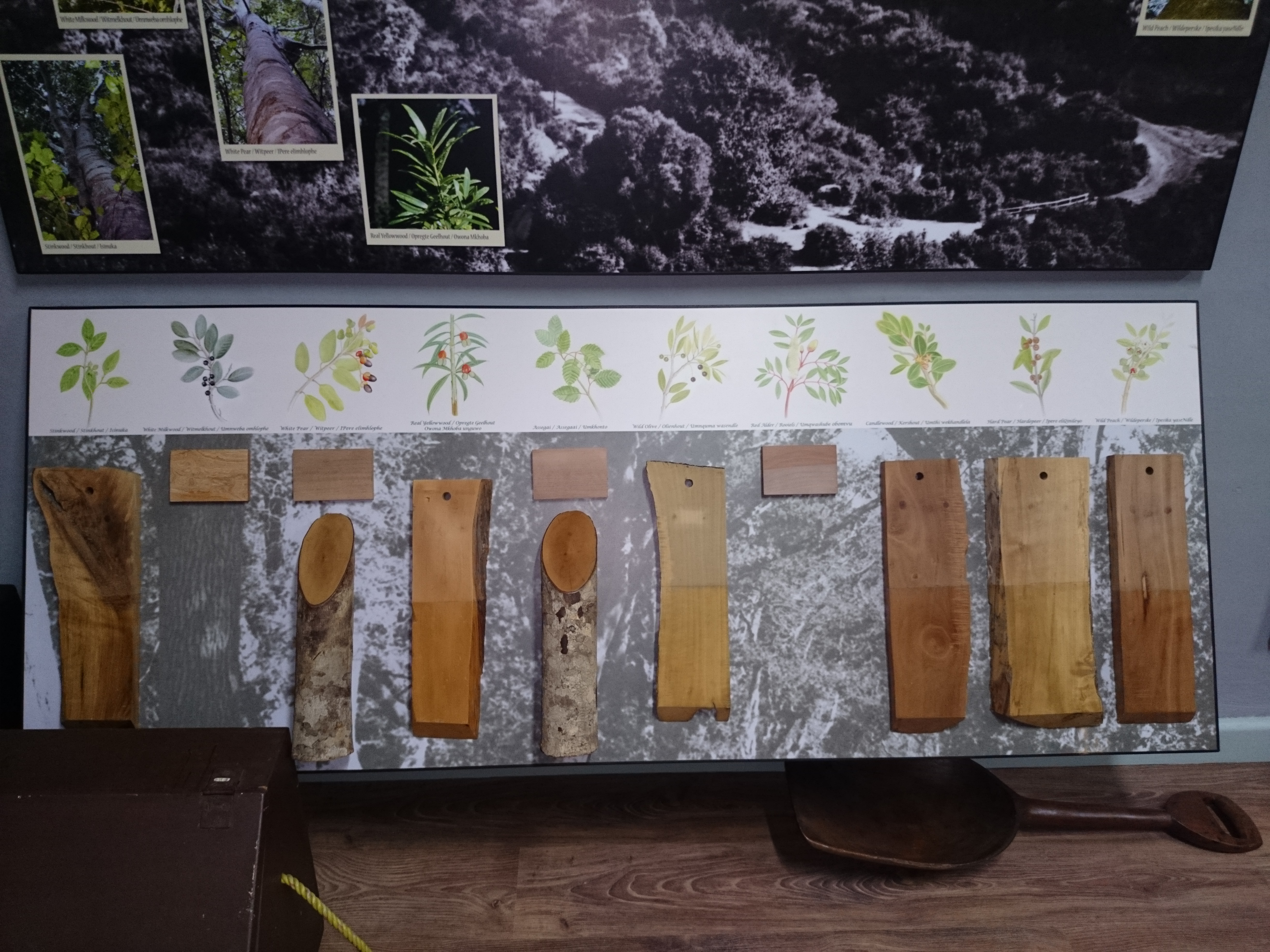 Sliced portions of some of the indigenous trees that can be found in Hout Bay.